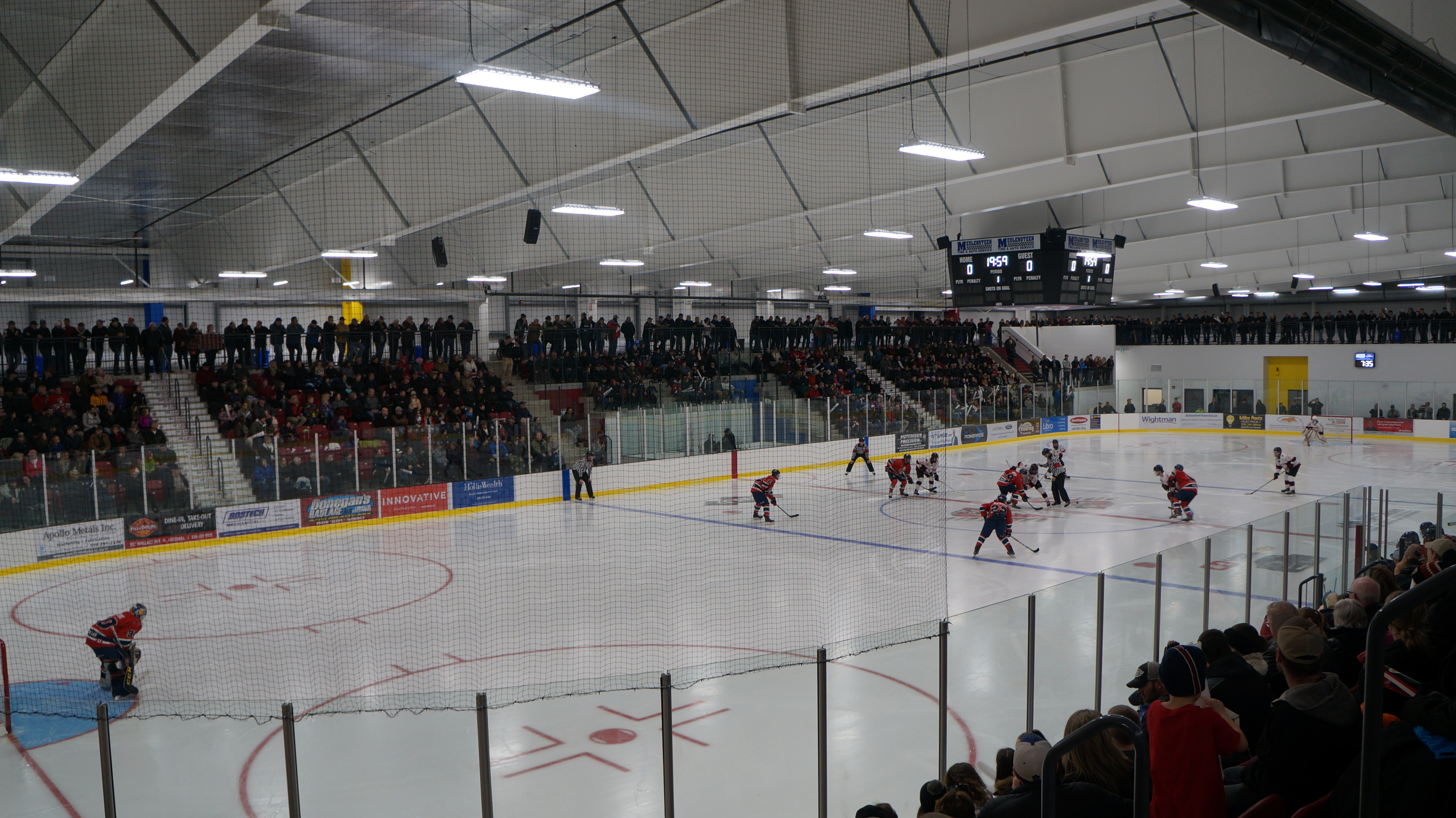 The first game in the Steve Kerr Memorial Complex in Listowel Ontario. The Listowel Cyclones hosted the Stratford Warriors